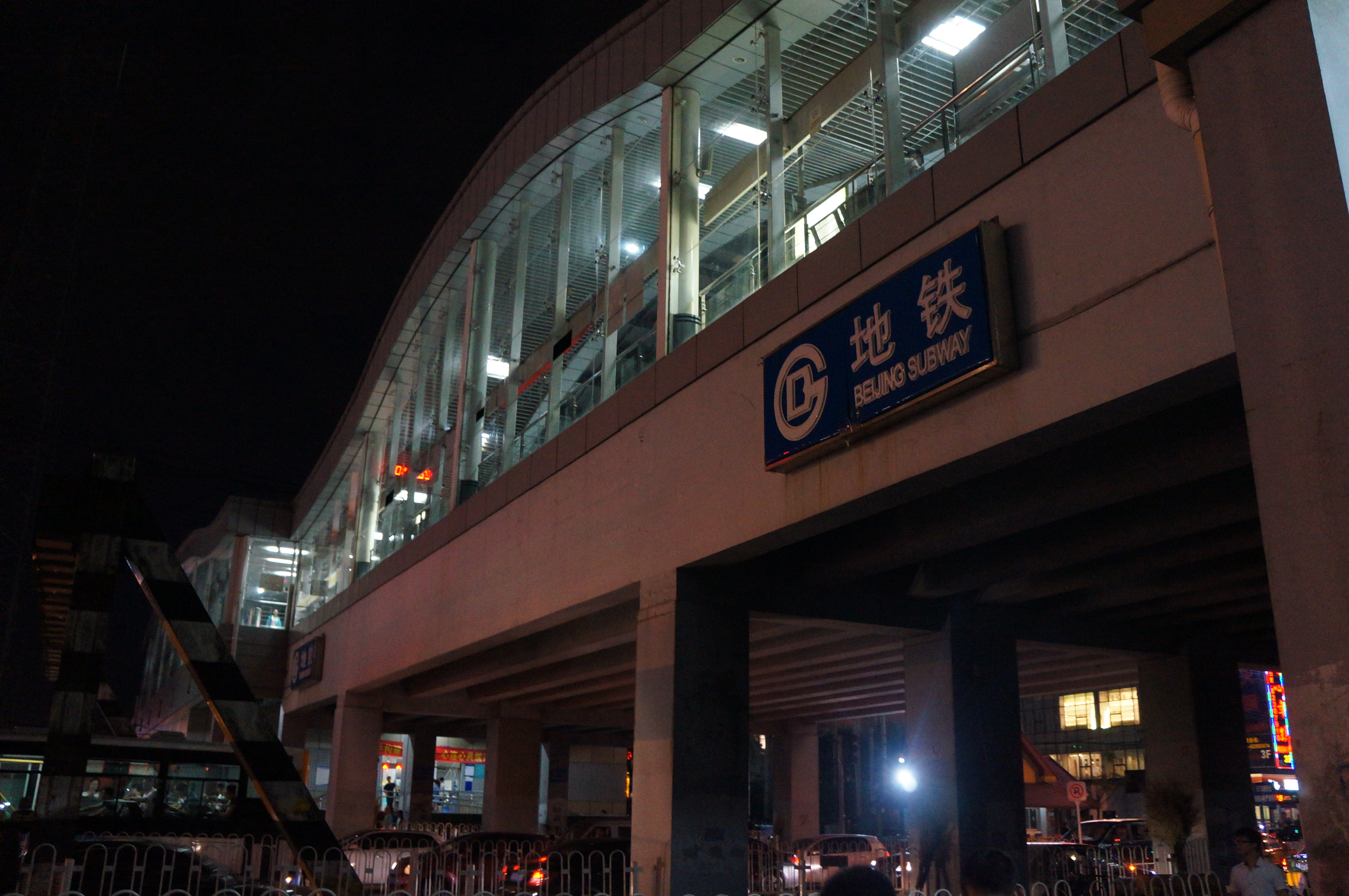 201606 Station building of Wudaokou Station